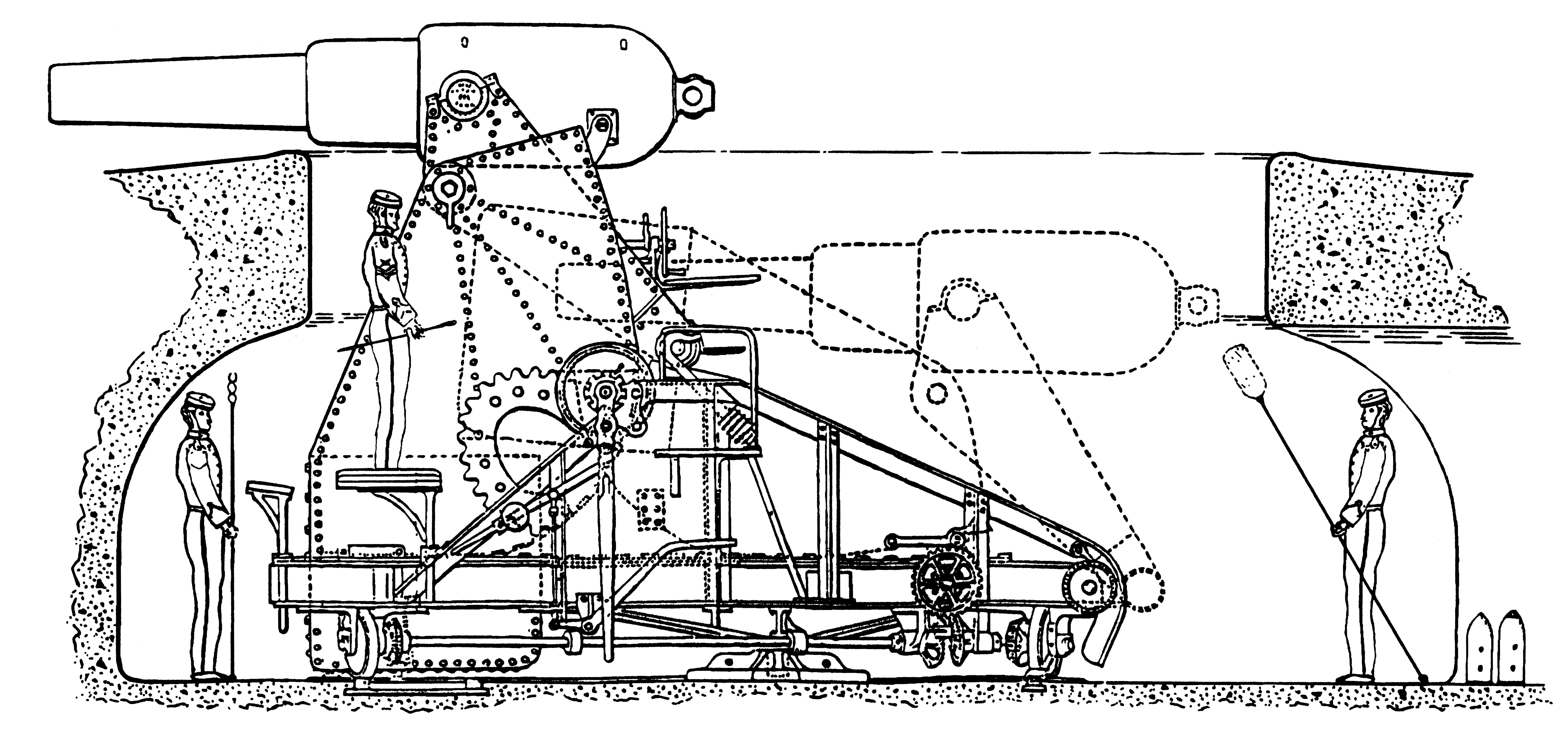 Montcrieff 'dissapearing gun' as installed on Flat Holm island in 1800's